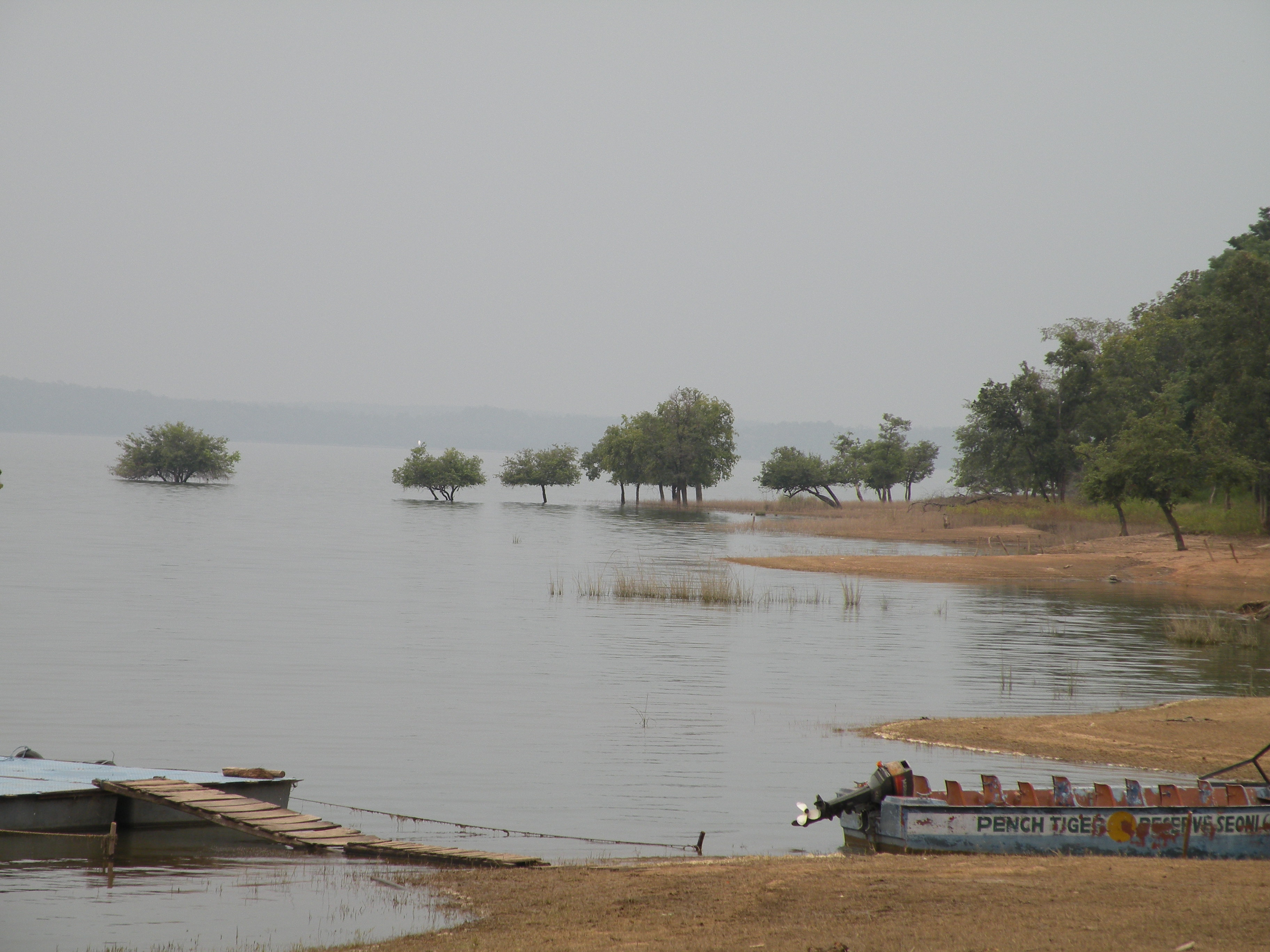 Pench National Park